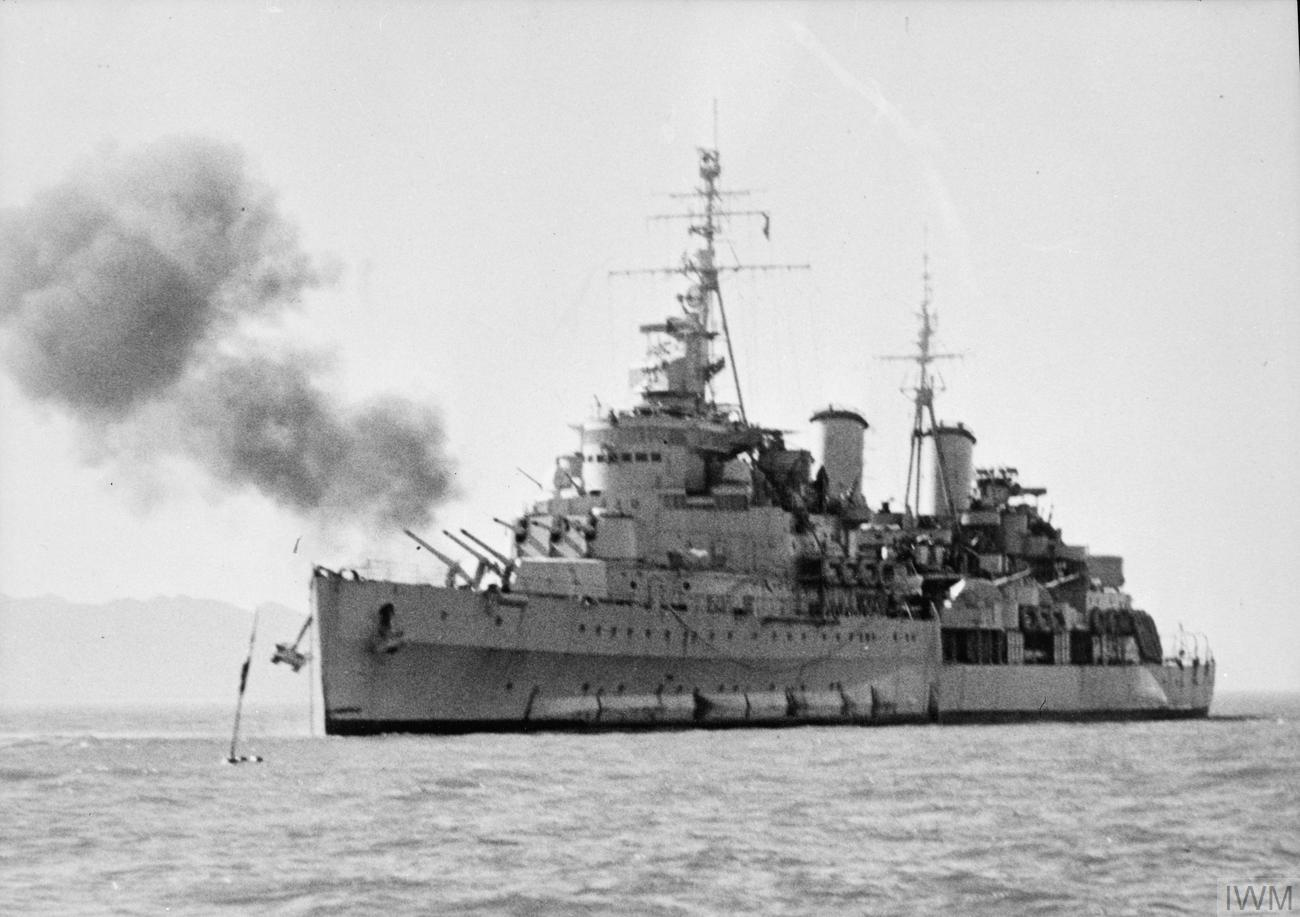 British cruiser HMS BELFAST firing a salvo from her six inch guns against enemy troop concentrations on the west coast of Korea.